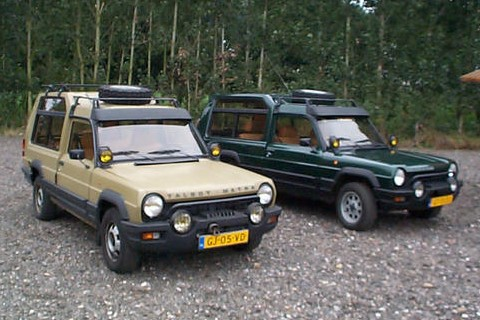 Two Talbot-Matra Grand Raid at a Matra-Simca meeting, showing the original two colours they were sold with